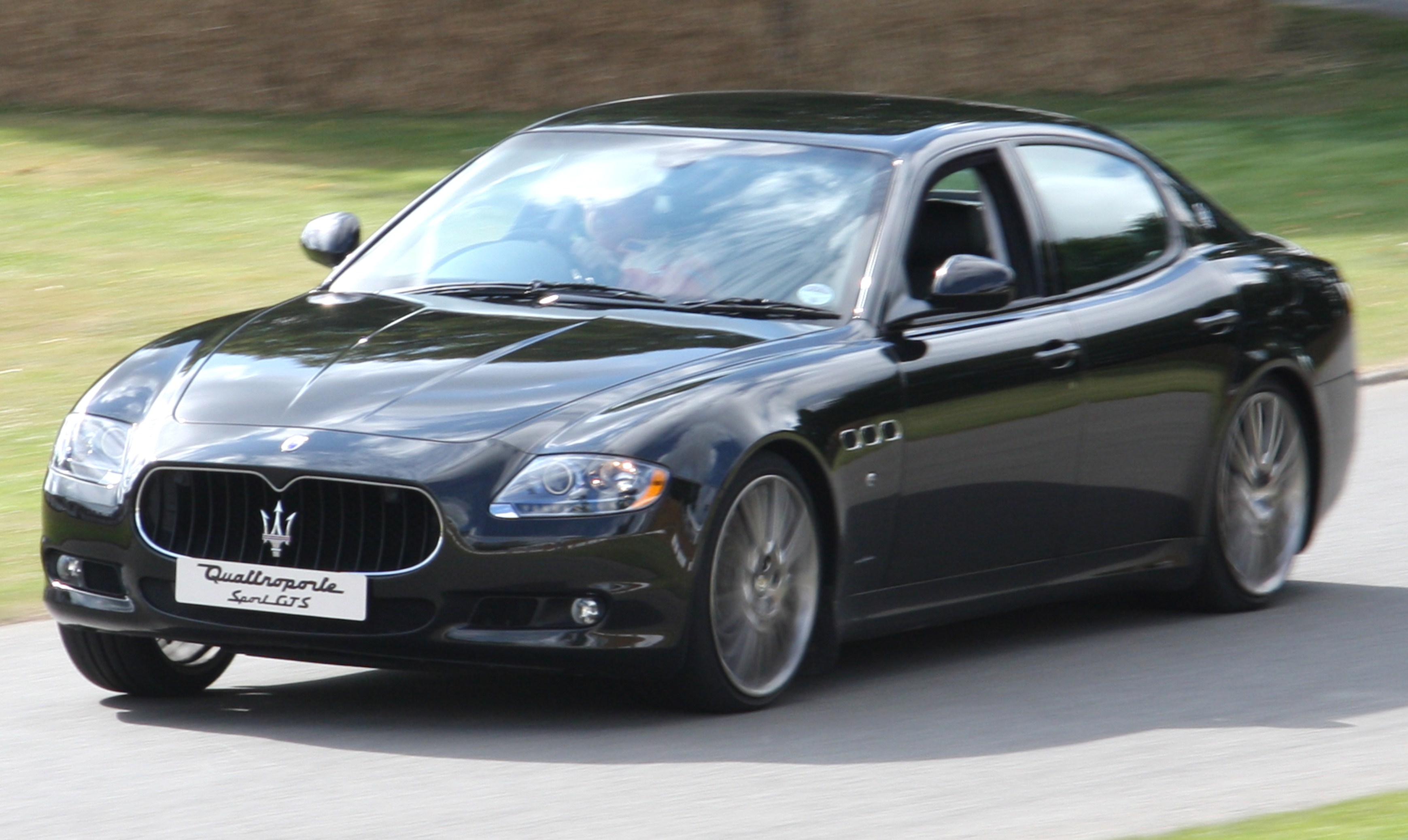 Maserati Quattroporte Sport GT S at the Goodwood Festival of Speed 2009